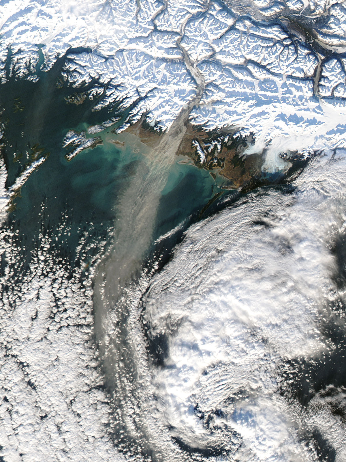 Dust storm in Alaska captured by Aqua/MODIS on Nov. 17, 2013 at 21:45 UTC. When glaciers grind against underlying bedrock, they produce a silty powder with grains finer than sand. Geologists call it “glacial flour” or “rock flour.” This iron- and feldspar-rich substance often finds its ways into rivers and lakes, coloring the water brown, grey, or aqua. When river or lake levels are low, the flour accumulates on drying riverbanks and deltas, leaving raw material for winds to lift into the air and create plumes of dust. Scientists are monitoring Arctic dust for a number of reasons. Dust storms can reduce visibility enough to disrupt air travel, and they can pose health hazards to people on the ground. Dust is also a key source of iron for phytoplankton in regional waters. Finally, there is the possibility that dust events are becoming more frequent and severe due to ongoing recession of glaciers in coastal Alaska. To read more about dust storm in this region go to: Credit: NASA/GSFC/Jeff Schmaltz/MODIS Land Rapid Response Team NASA image use policy. NASA Goddard Space Flight Center enables NASA’s mission through four scientific endeavors: Earth Science, Heliophysics, Solar System Exploration, and Astrophysics. Goddard plays a leading role in NASA’s accomplishments by contributing compelling scientific knowledge to advance the Agency’s mission. Follow us on Twitter Like us on Facebook Find us on Instagram